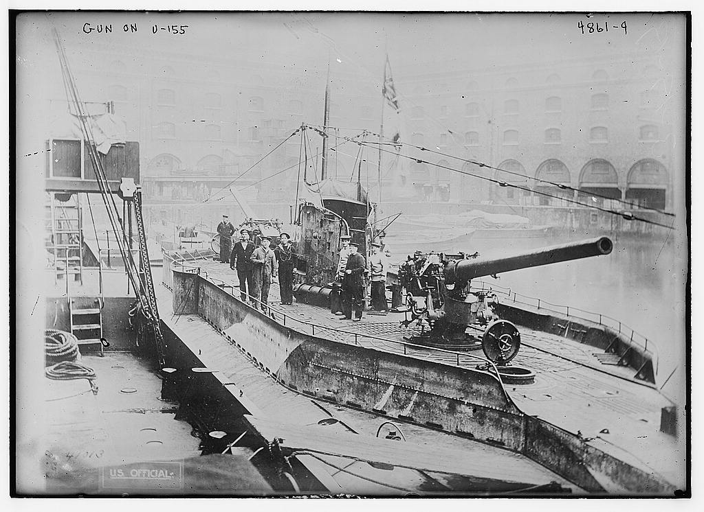 15 cm gun on German submarine U-155 (formerly merchant submarine Deutschland). 1 negative : glass ; 5 x 7 in. or smaller.